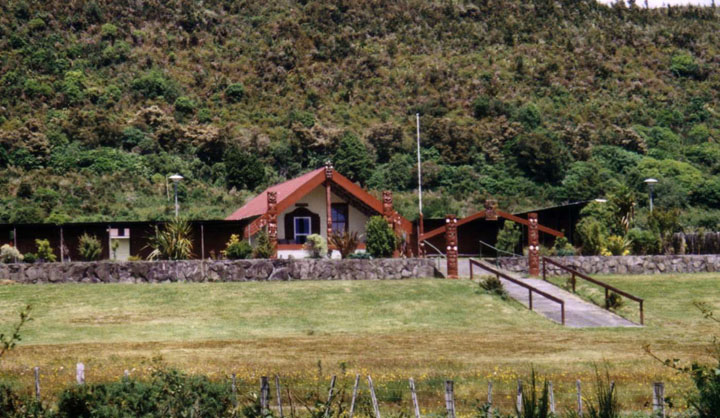 Papakai marae, a marae to the northwest of Mt. Tongariro, in New Zealand's North Island.